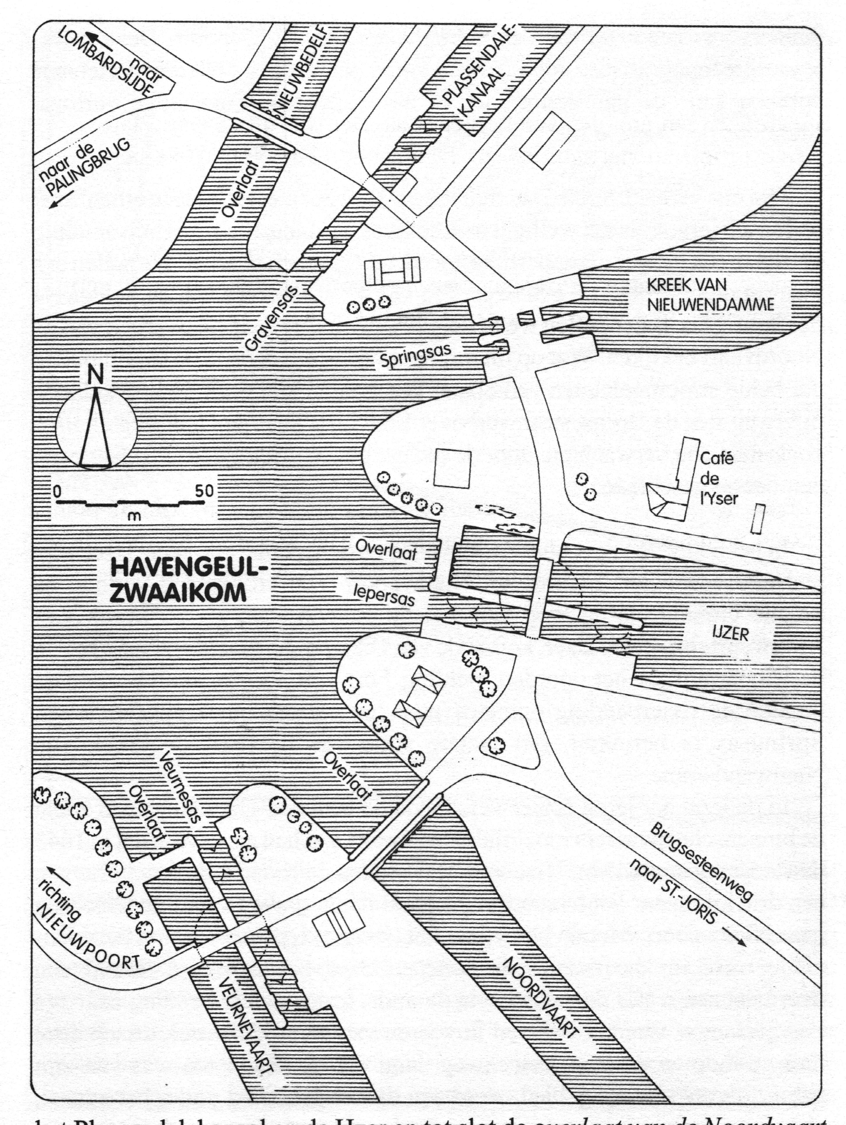 The "ganzepoot" (Goosefoot), a complex of sluices, locks and floodgates